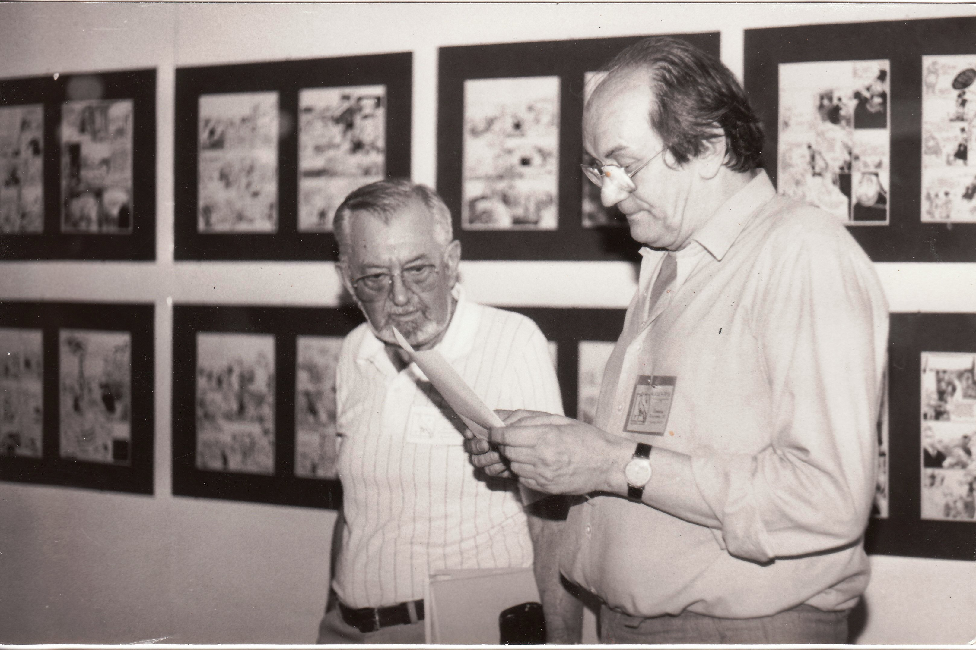 Péter Kuczka (right) and Ernő Zórád